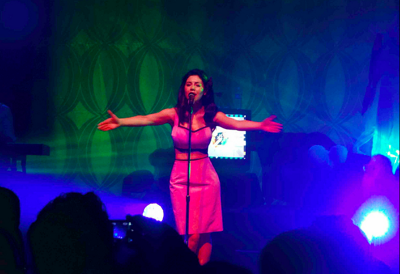 Lonely Hearts Club Tour in San Francisco